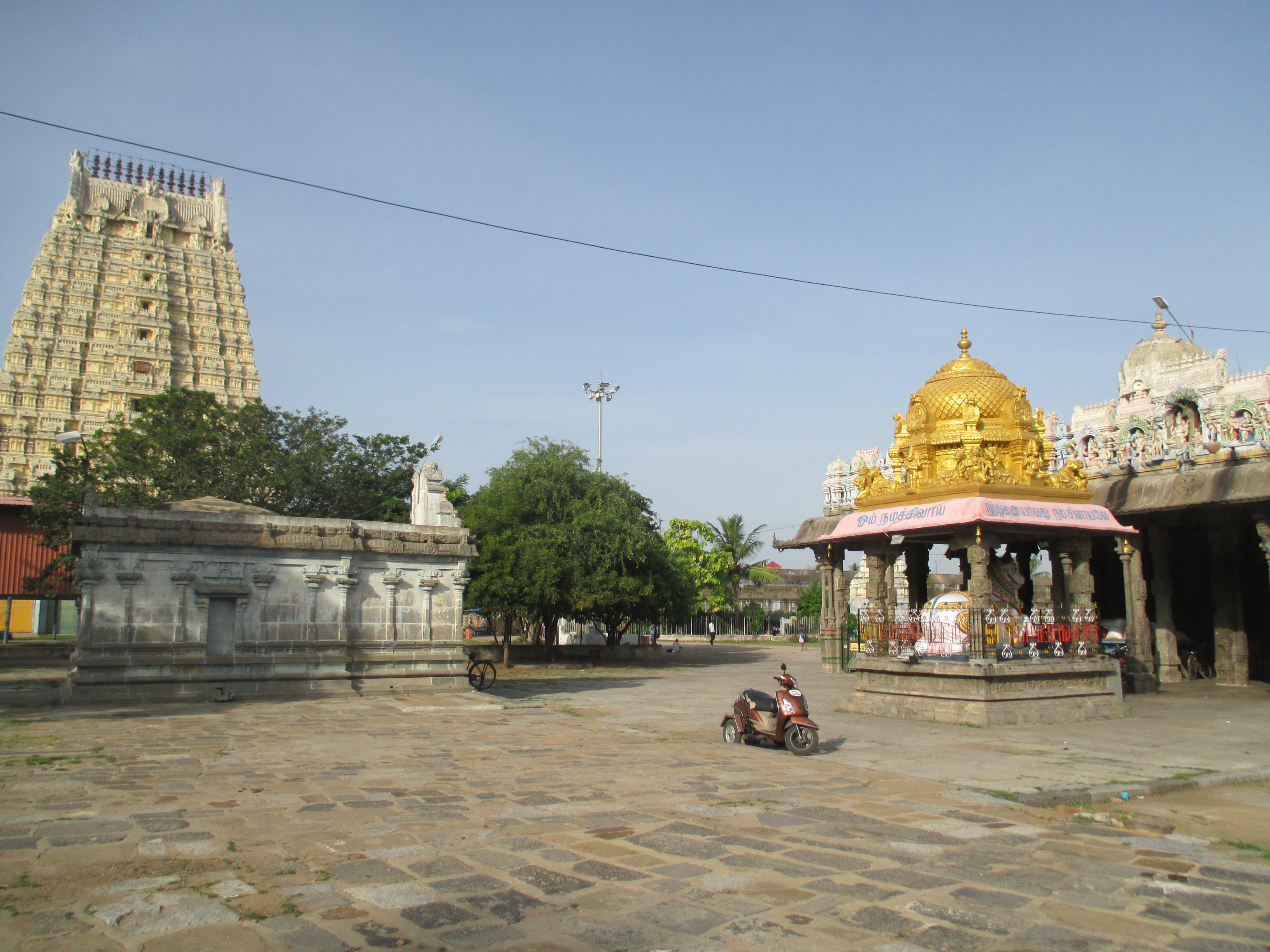 Ekambareswarar Temple